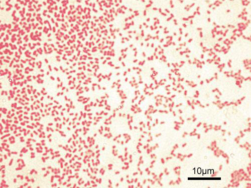 microscopic image of Pseudomonas aeruginosa (ATCC 27853). Gram staining, magnification:1,000